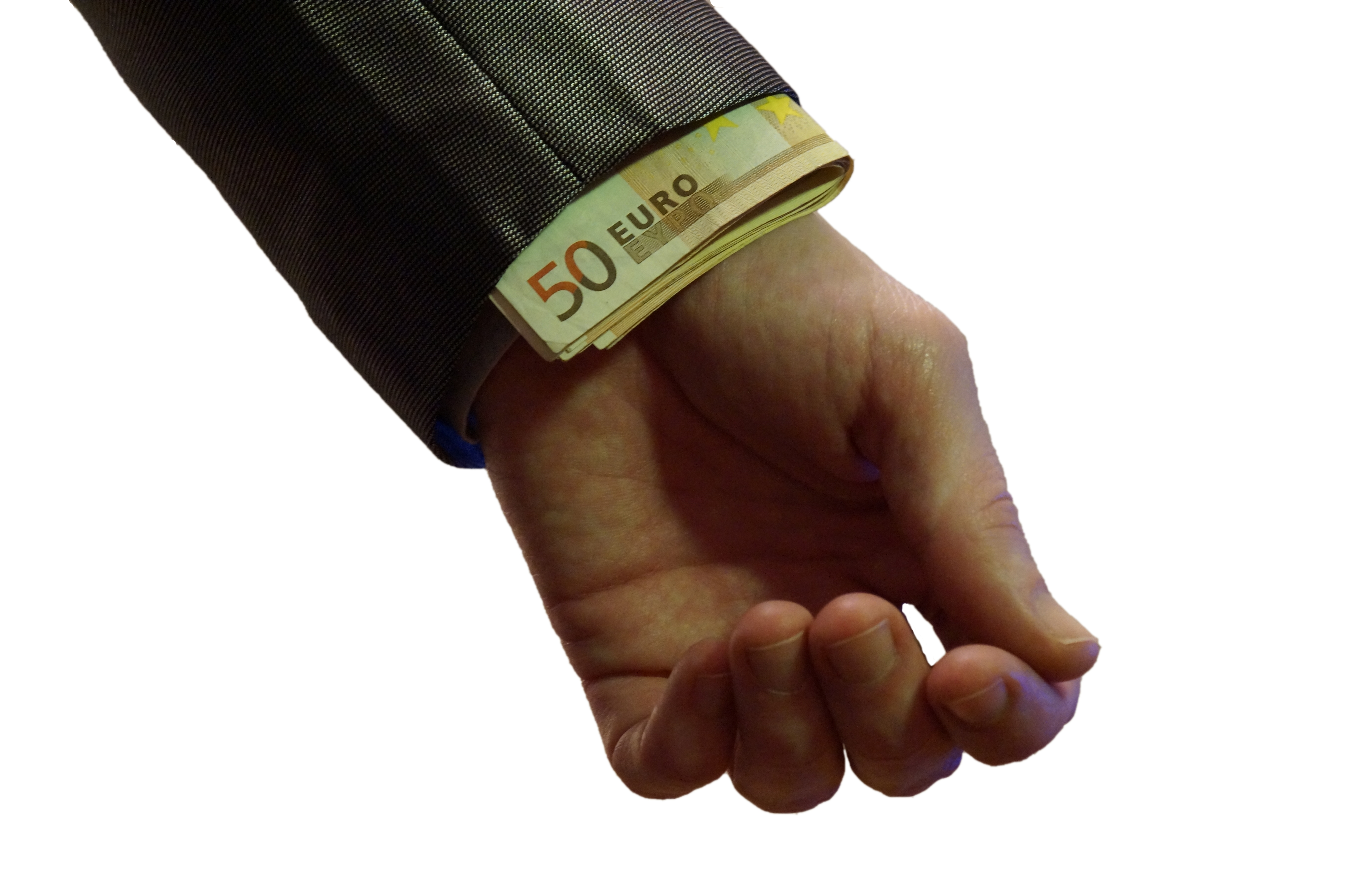 Shaking hands with euro banknotes hidden in the hands. White background. This photo has been released into the public domain. There are no copyrights: you can use and modify this photo without asking, and without attribution.